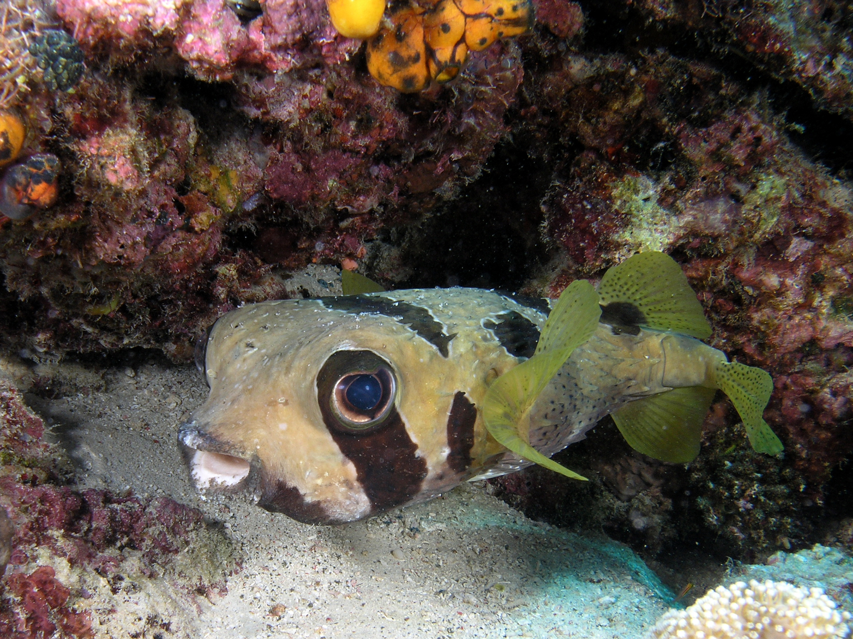 Large pufferfish in Komodo National Park